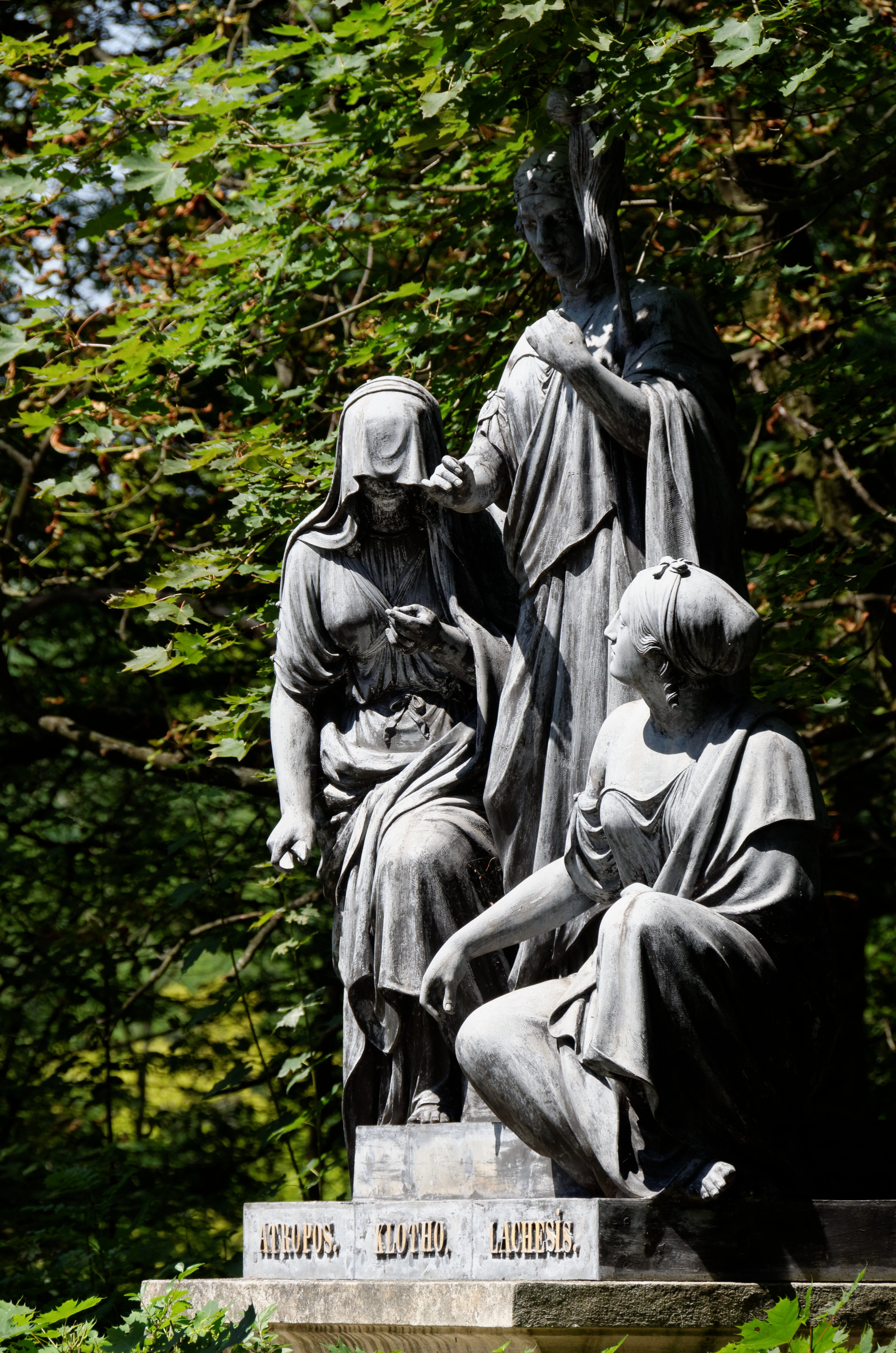 The Parcae at Heldenberg Memorial